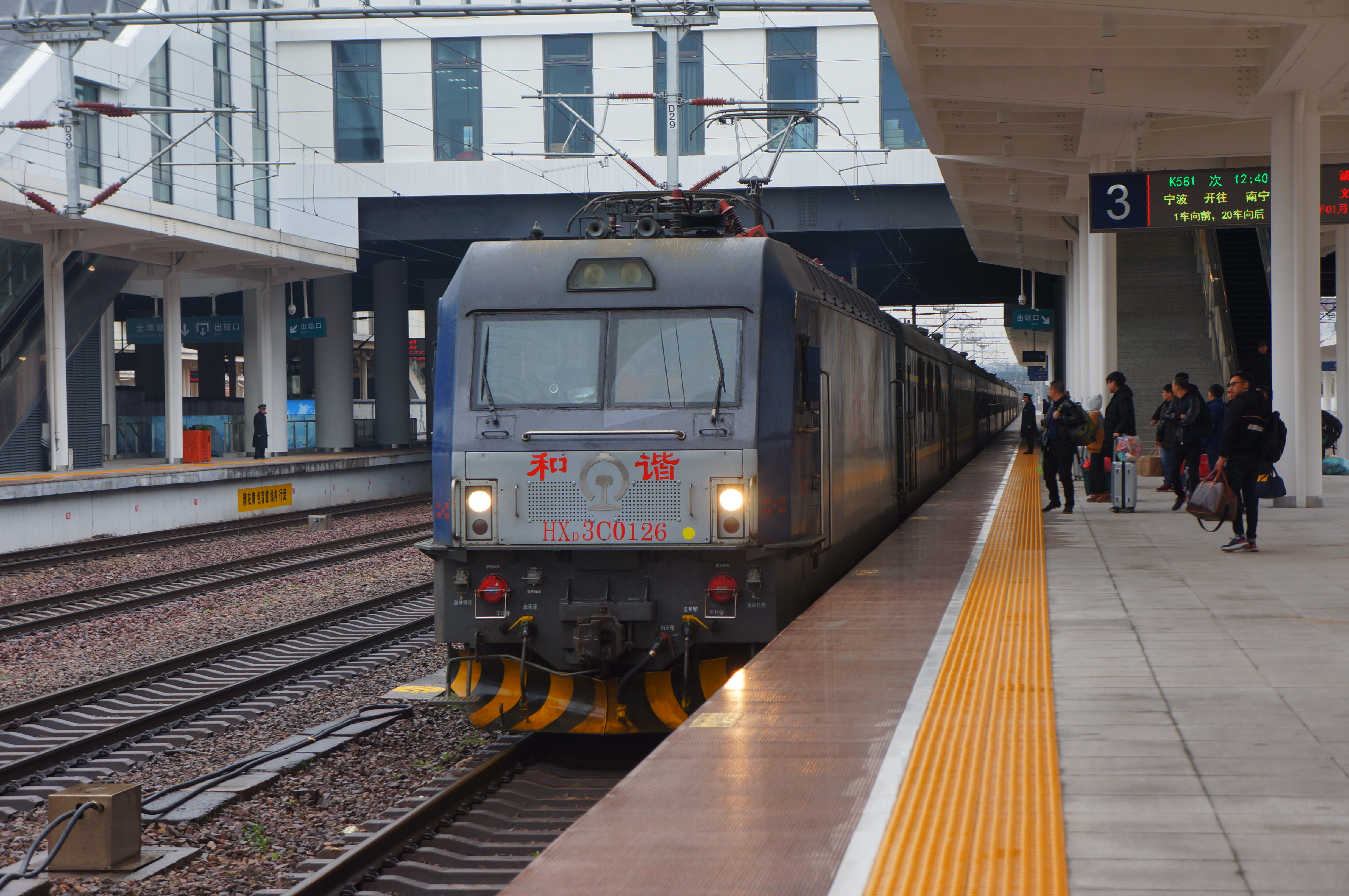 K581 from Ningbo to Nanjing.The boarding gate was changed from 1A/B to 3A/B